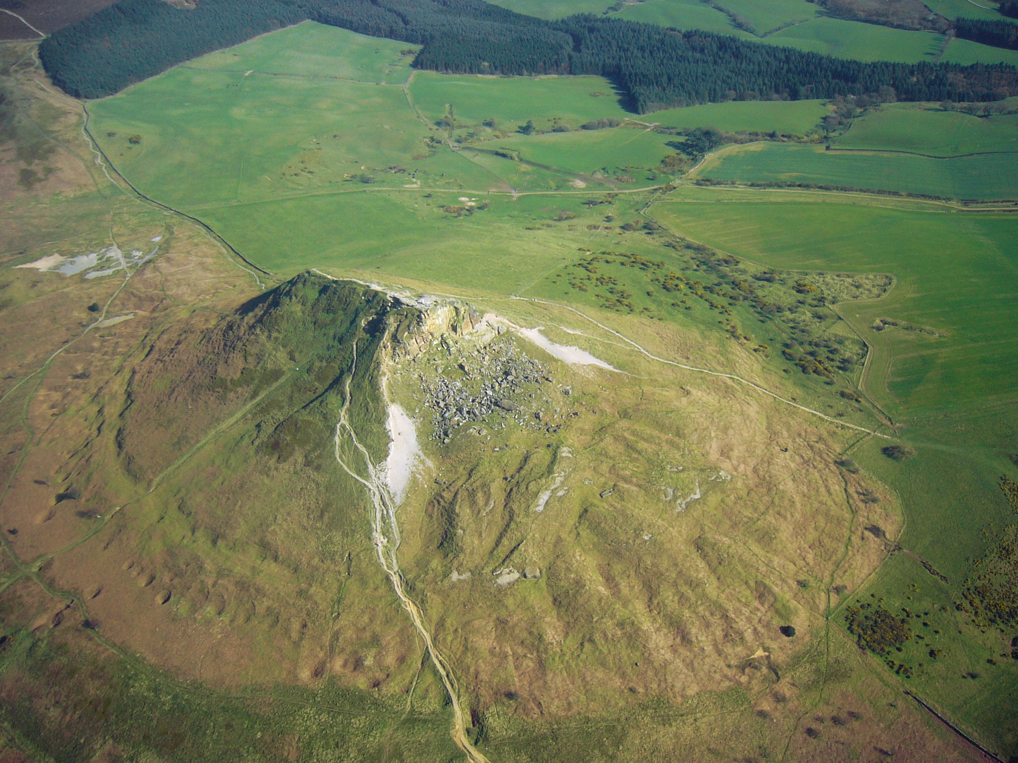 Aerial photo Roseberry Topping, a hill in North Yorkshire.